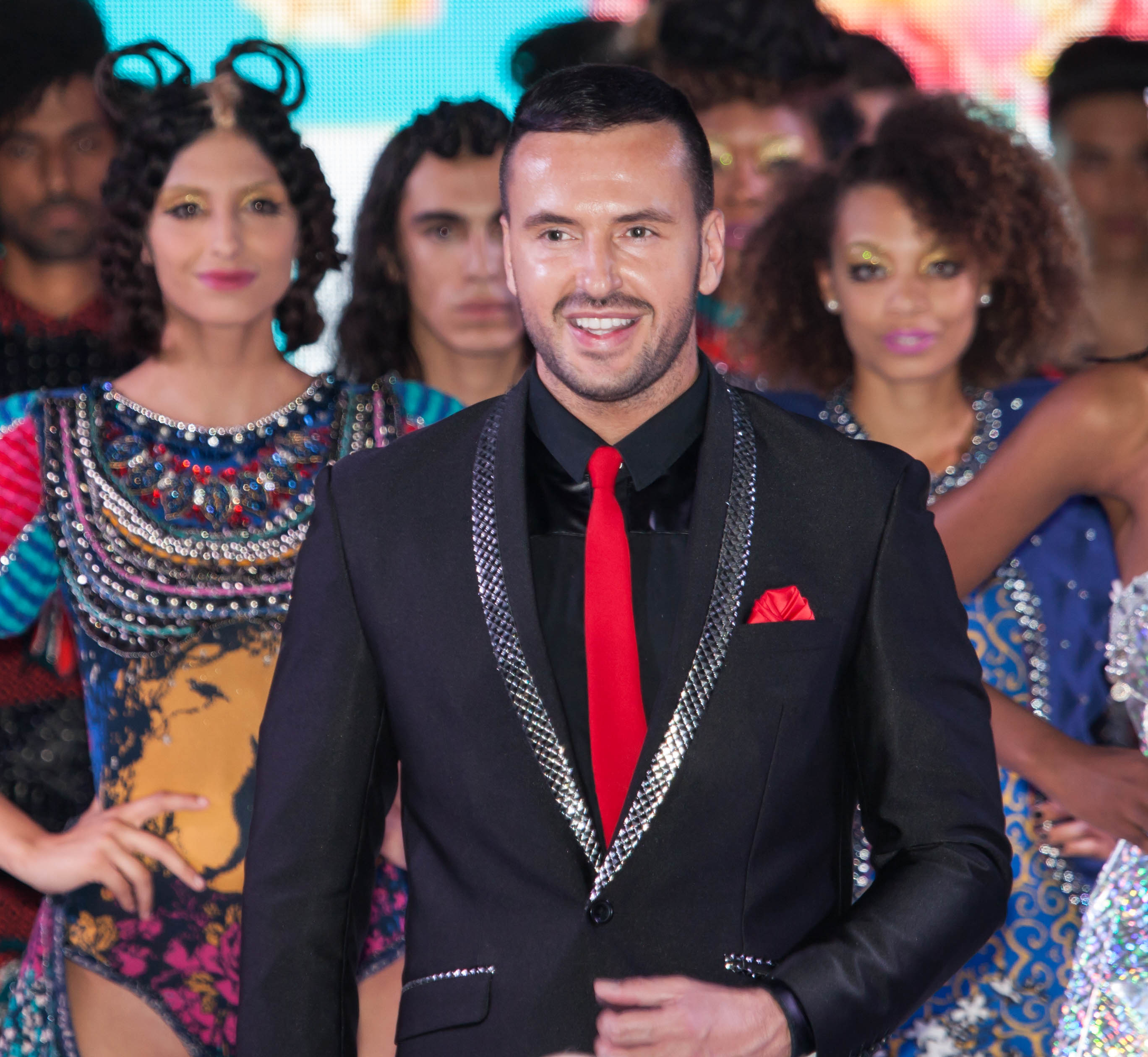 George Styler LAFW